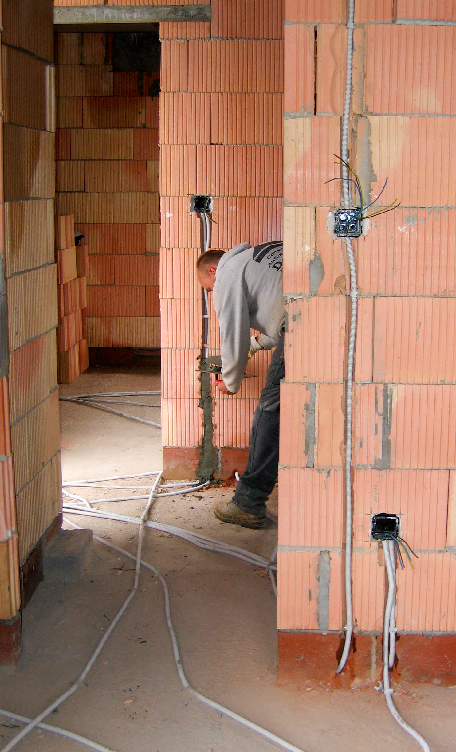 Installing electrical wiring "the old way". This kind of electrical wire installation is still commonly practice in Europe, yet is wasteful (a lot of brick is lost due to the cutting), time-consuming, not very handy when there is a burned trough/damaged wire, ... A better alternative is the use of cable trays (although they are somewhat more expensive).